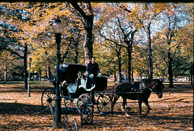 Carriage in Central Park, New York City. Permission: please cite Rainer Halama as author of this picture. I would also appreciate it, if you inform me when using this picture about where and when it has been used. Carriage at Central Park, New York City, NY